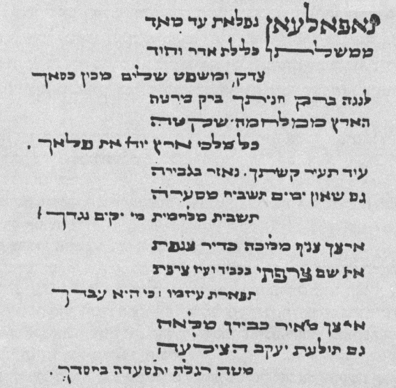 A poem composed by Rabbi Chorin of Arad, Romania as part of his letter to the preparatory commission of the 1807 Grand Sanhedrin. It is in honor of Emperor Napoleon.